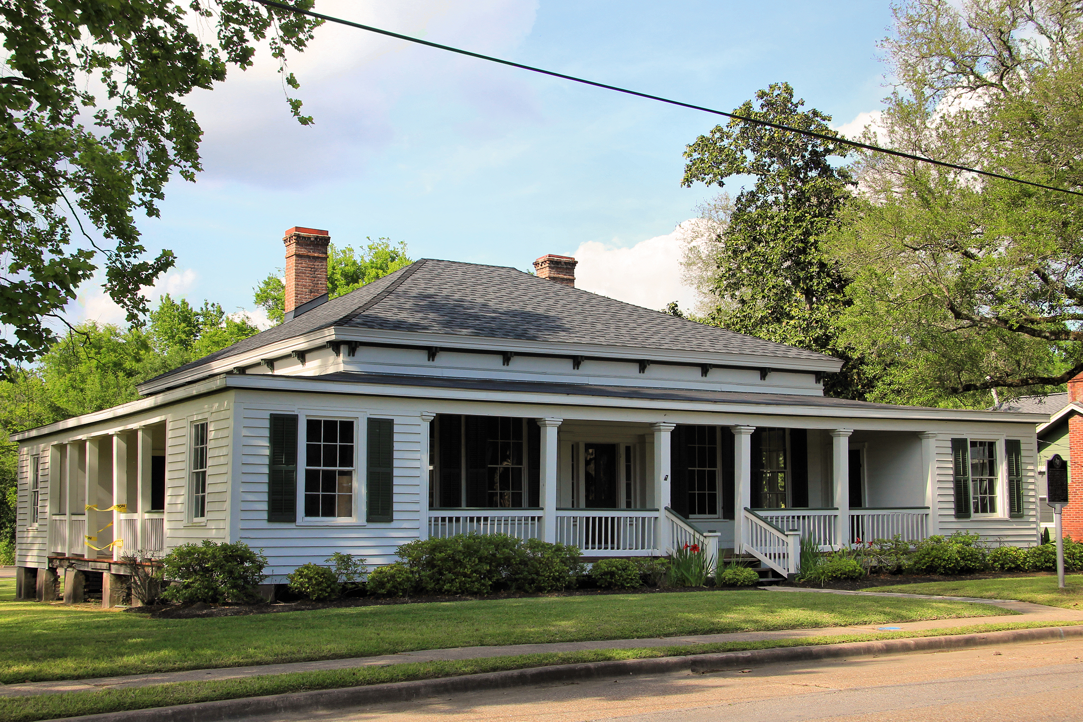 The Cleveland Partlow House in Liberty, Texas, United States. The house was designated a Recorded Texas Historic Landmark in 1962 and listed on the National Register of Historic Places on February 16, 1984.